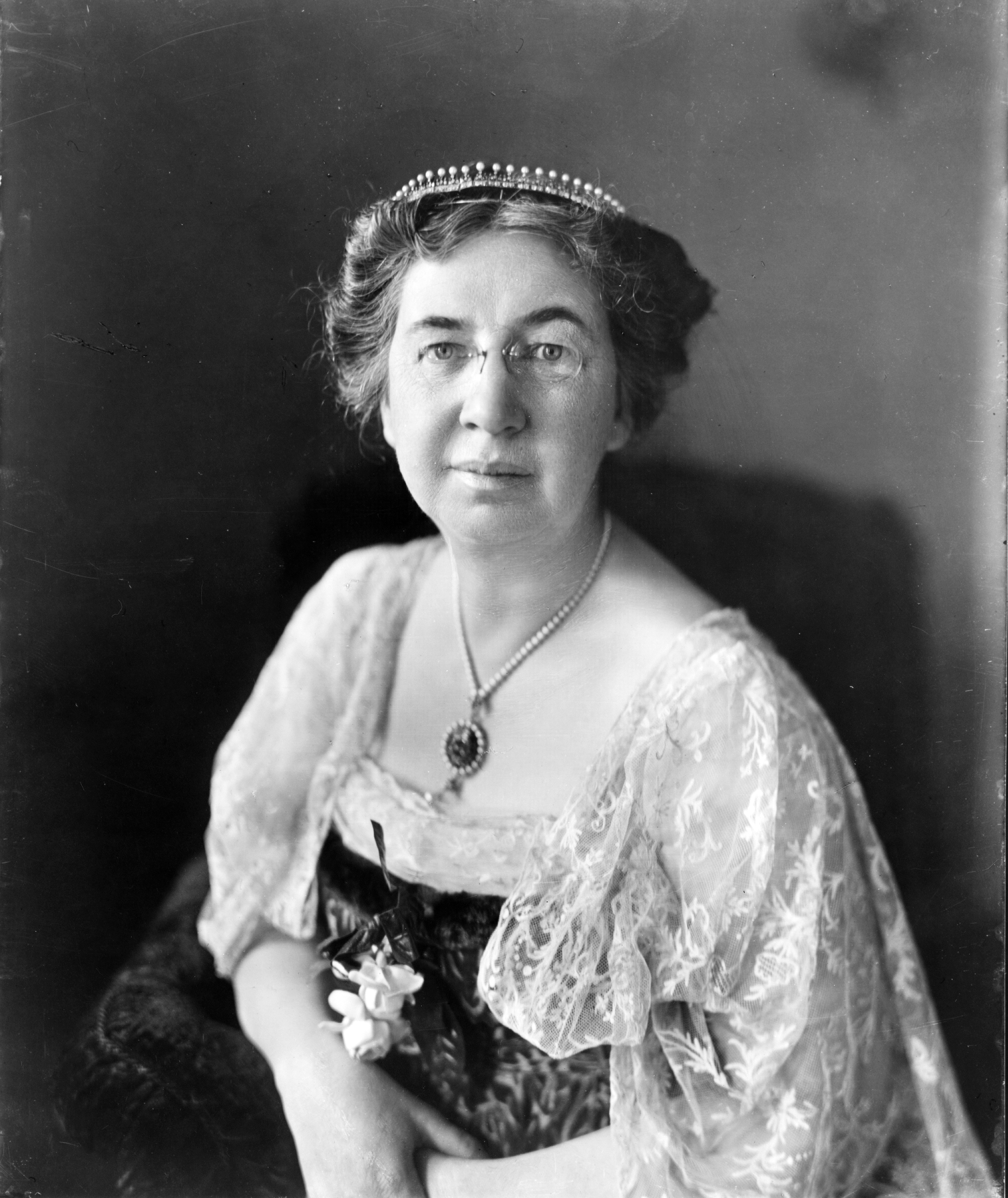 Mabel Gardiner Hubbard, wife of Alexander Graham Bell, half-length portrait, seated, facing front